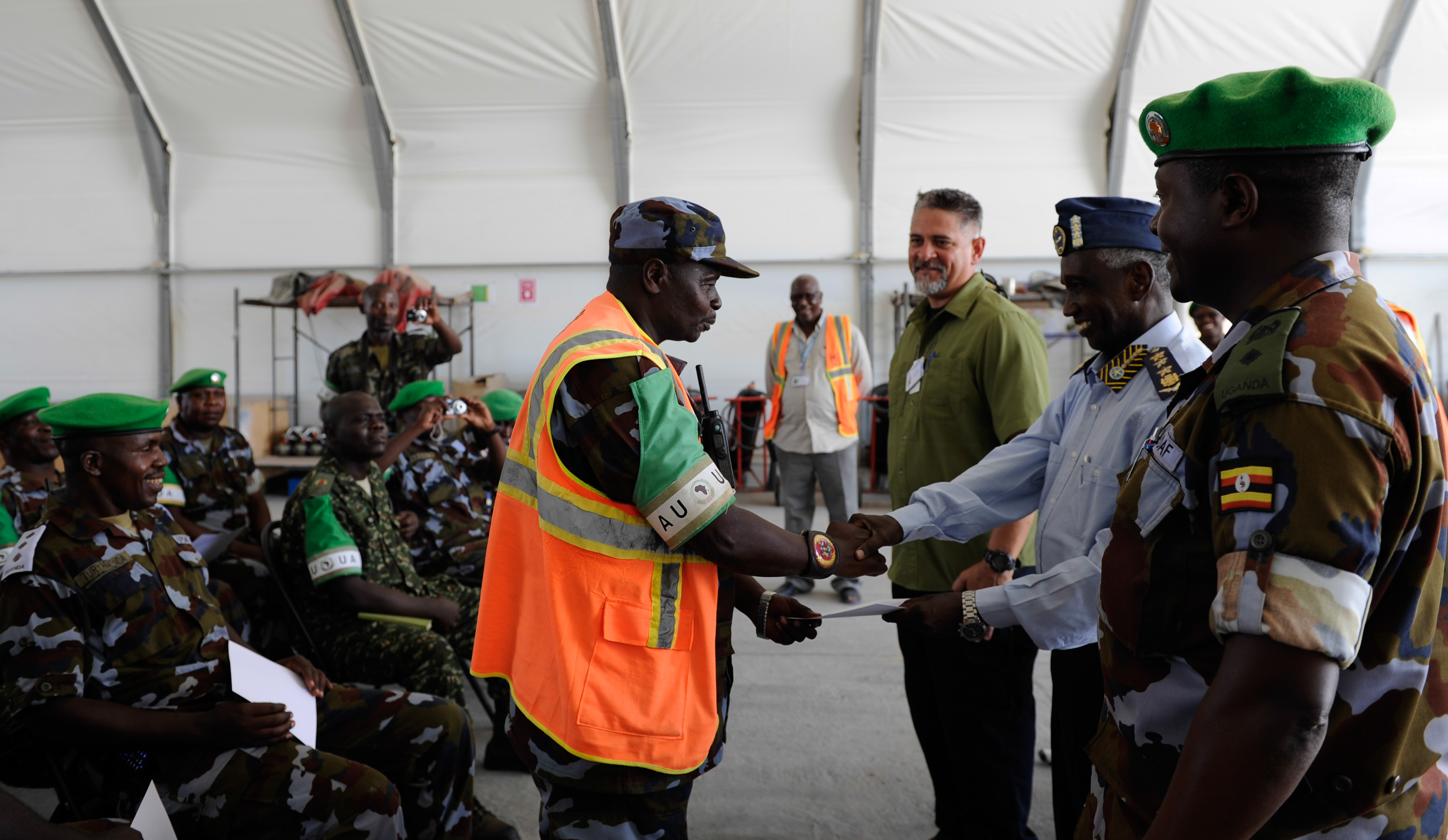 Somali Air Force Commander General Mohamud Ali gives certivicate to Ugandan civil aviation officer during a ceremony at Adan Adde International Airport in Mogadishu Somalia on October 26, 2014. The officer was part of AMISOM officers who were arwaded certificates of appreciation for their work in Somalia. AU/UN IST Photo/ Ilyas A. Abukar